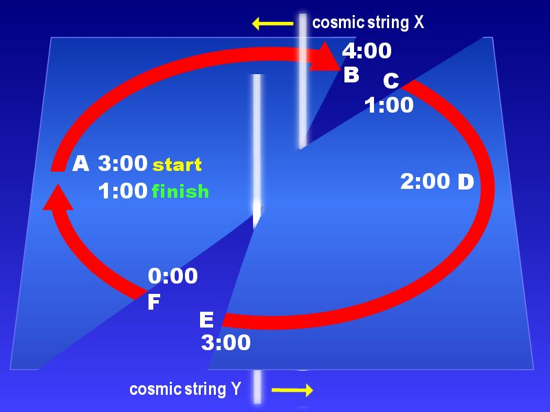 Time travel hypothesis ; using cosmic strings.